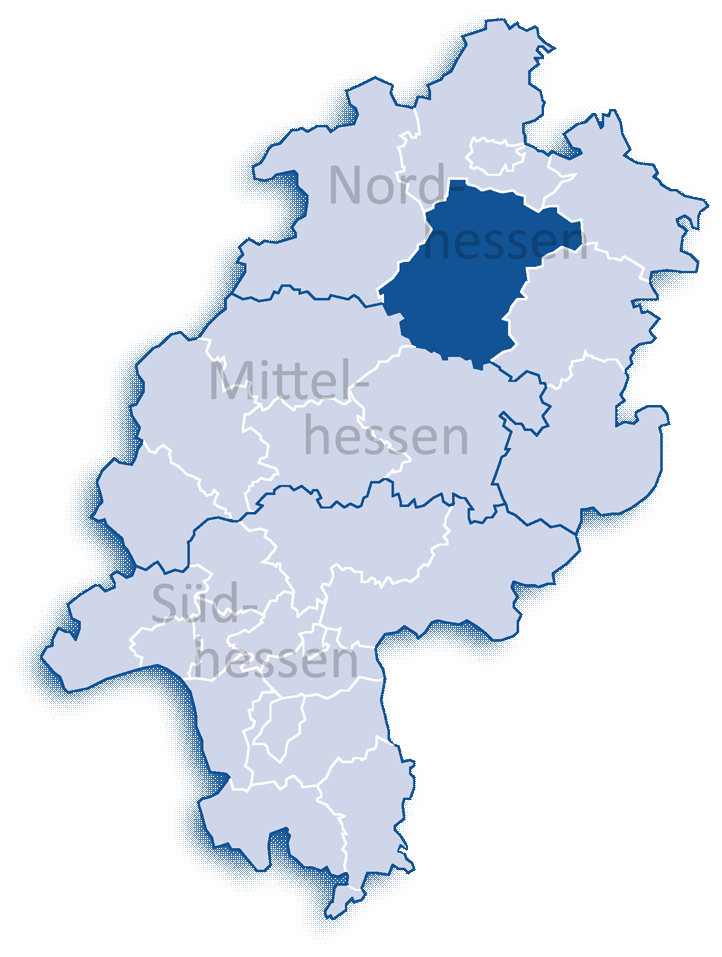 The map shows the district Schwalm-Eder-Kreis. A district in Hesse